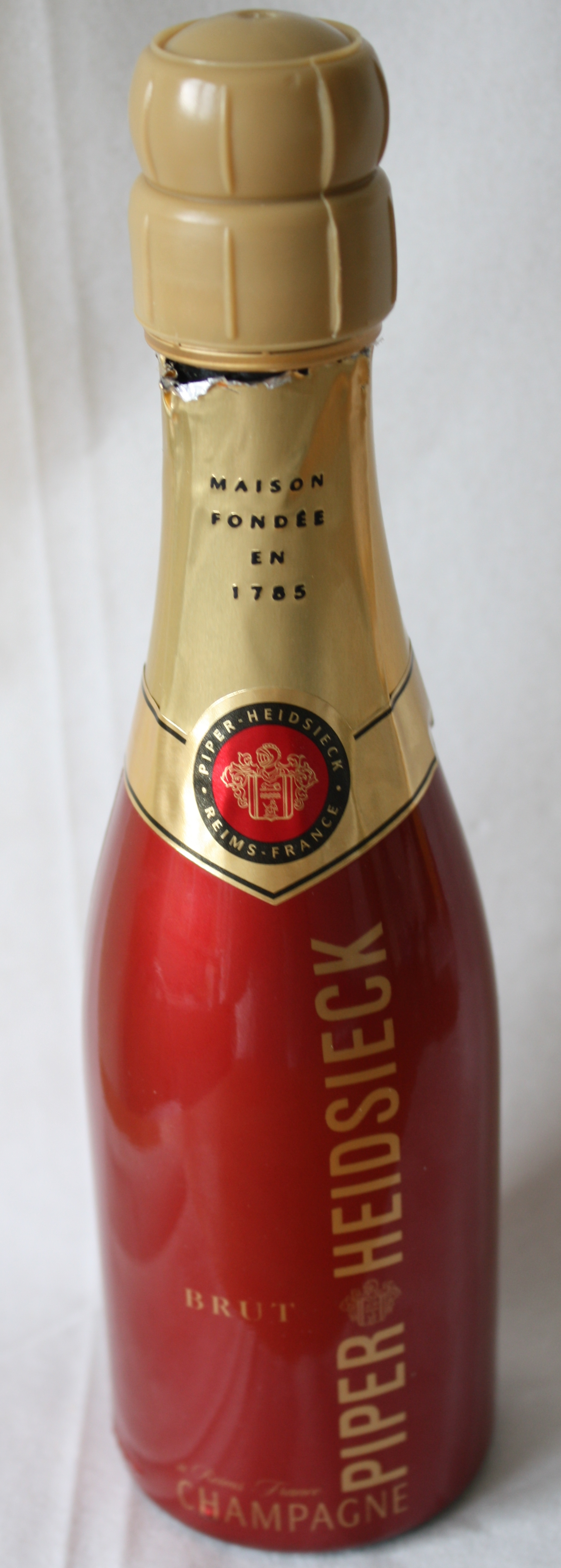 Piper Heidsieck Champagne, Champagne bottle